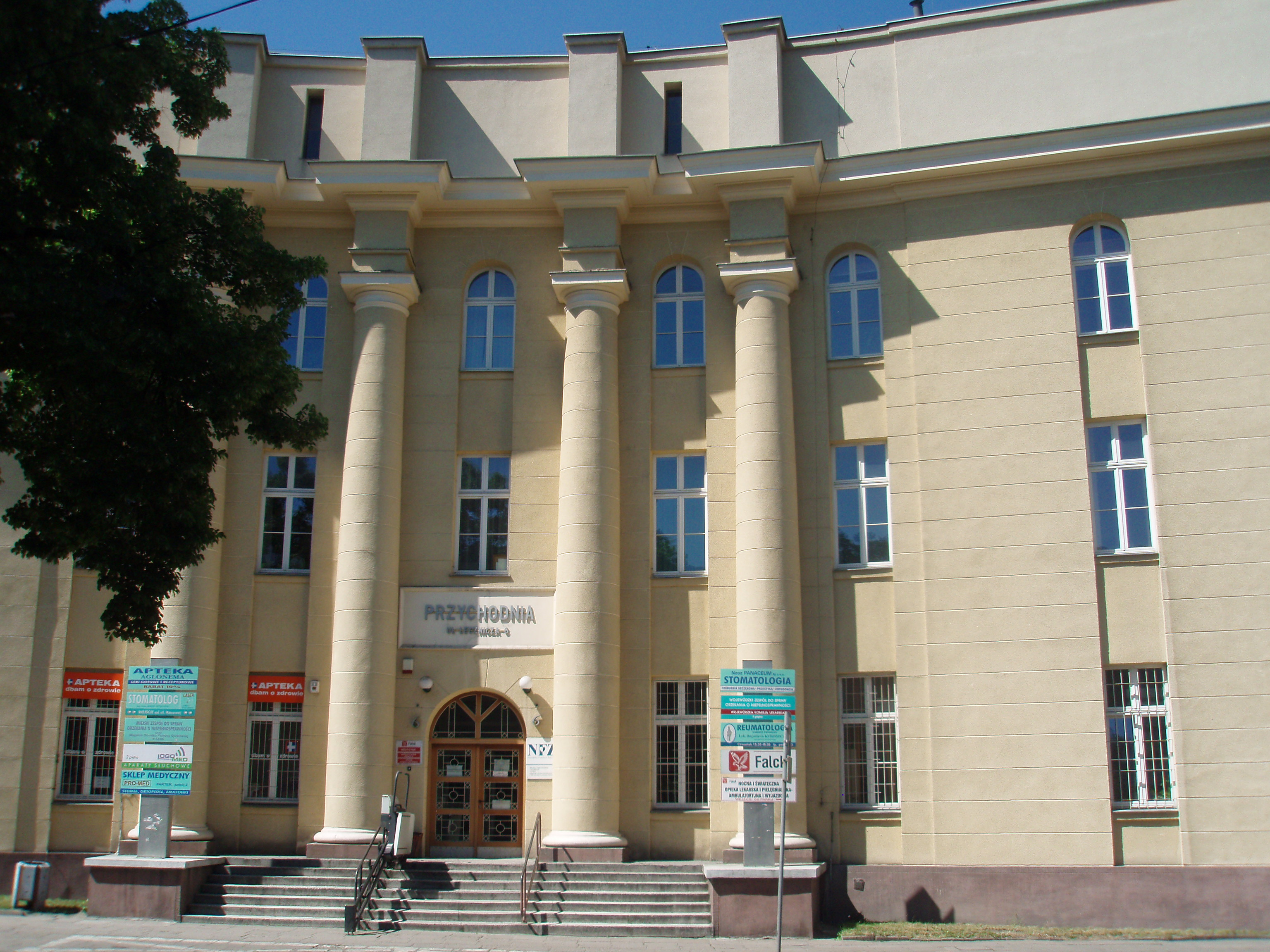 City Health dept. in Lodz (lecznicza street